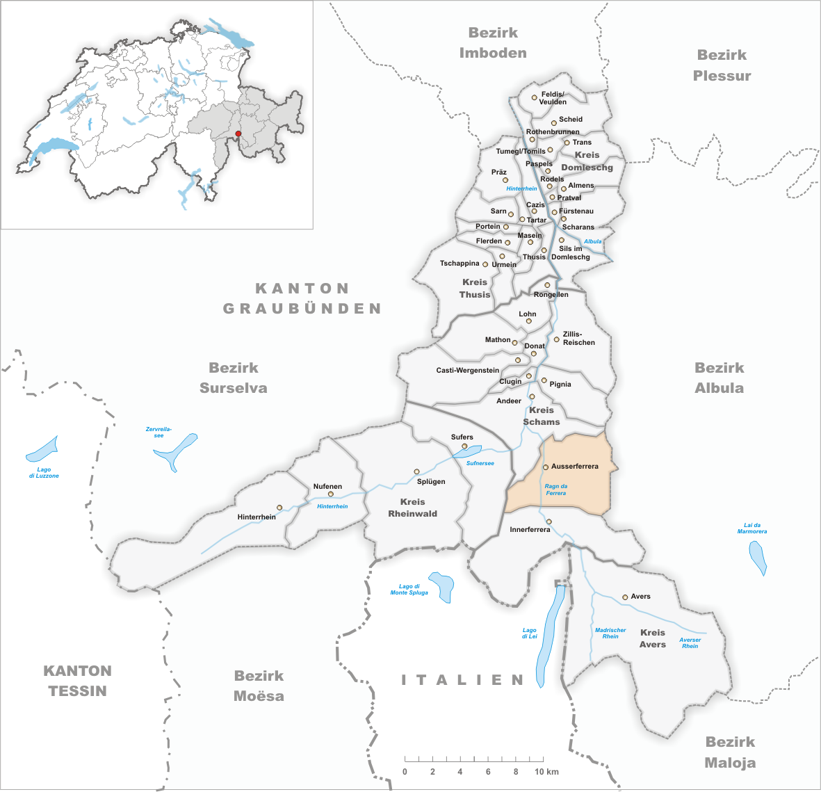 Municipality Ausserferrera